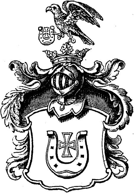 Coat of arms Jastrzębiec from Herbarz polski by Kacper Niesiecki